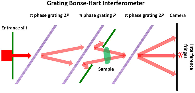 Drawing of a grating Bonse-Hart interferometer depicting how it creates interference fringes.